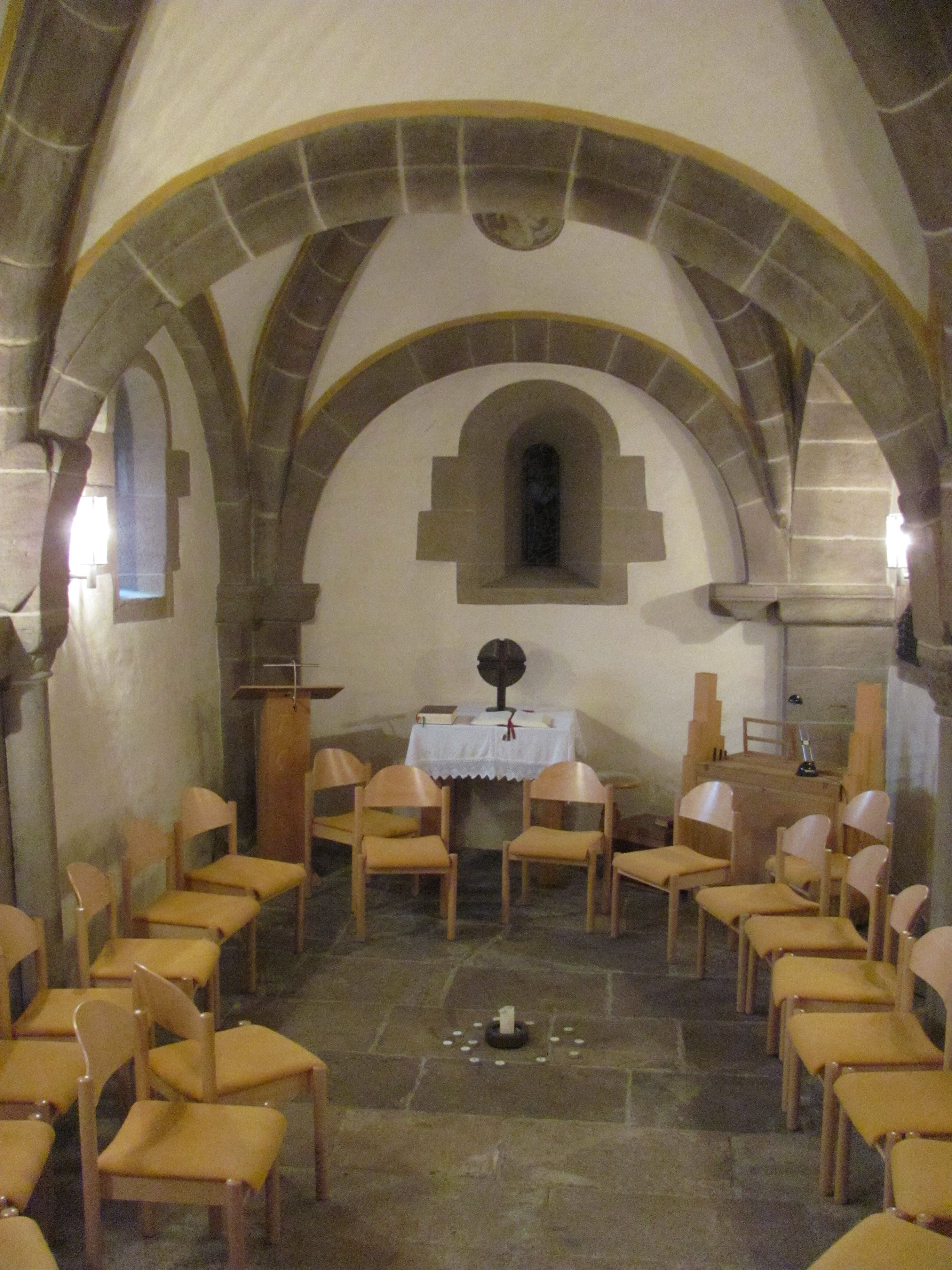 Schlüchtern Monastery, St. Andrew Chapel